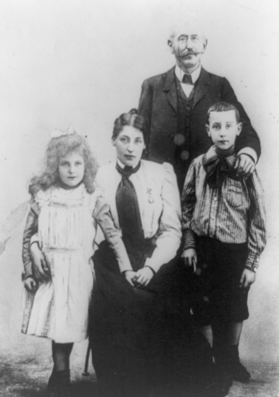 Capt. Alfred Dreyfus, full-length portrait, standing, facing front, with wife(?) and two children. Between 1910 and 1935.